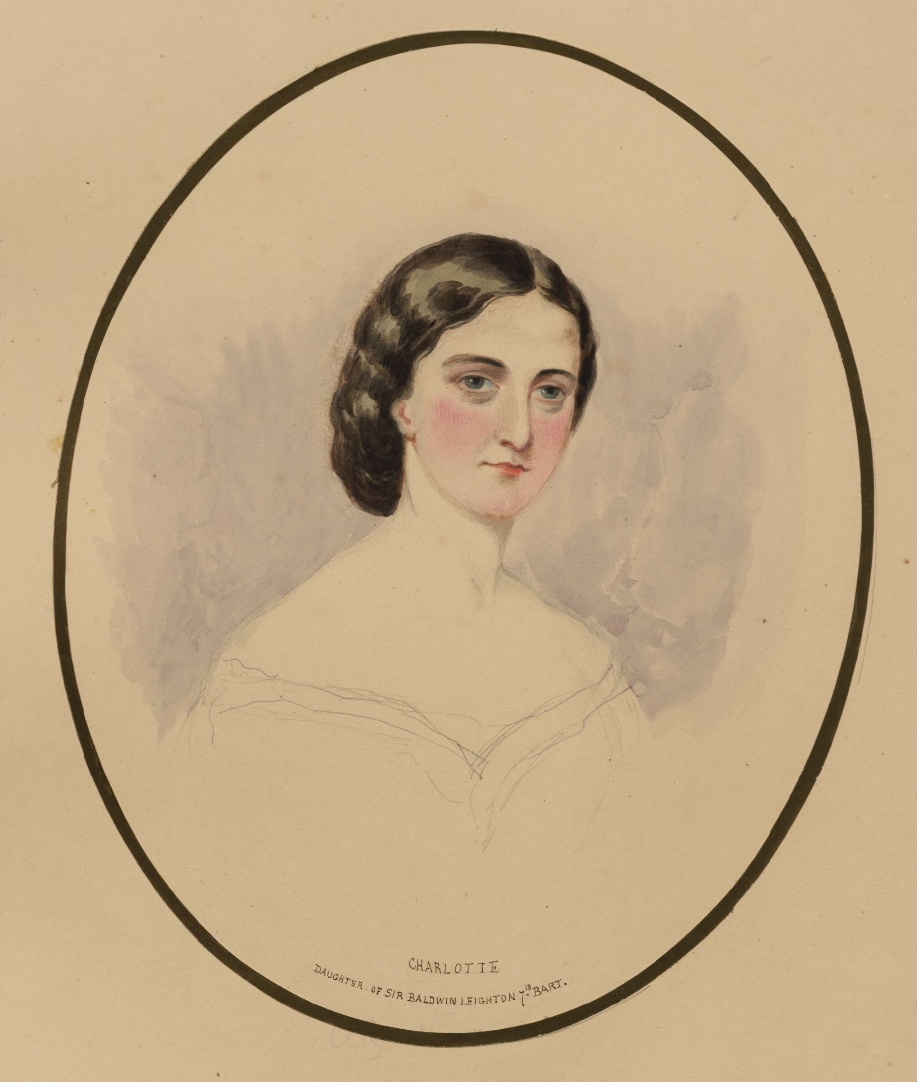 Unfinished portraits of Shropshire Ladies by Lady Mary Leighton. Charlotte d. of Sir Baldwyn Leighton